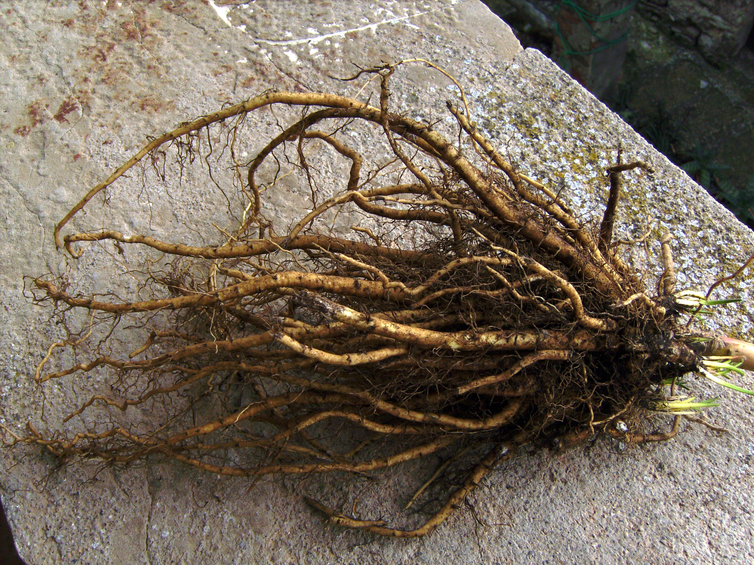 Marshmallow roots from a cultivated Althaea officinalis plant, Castelltallat, Catalonia